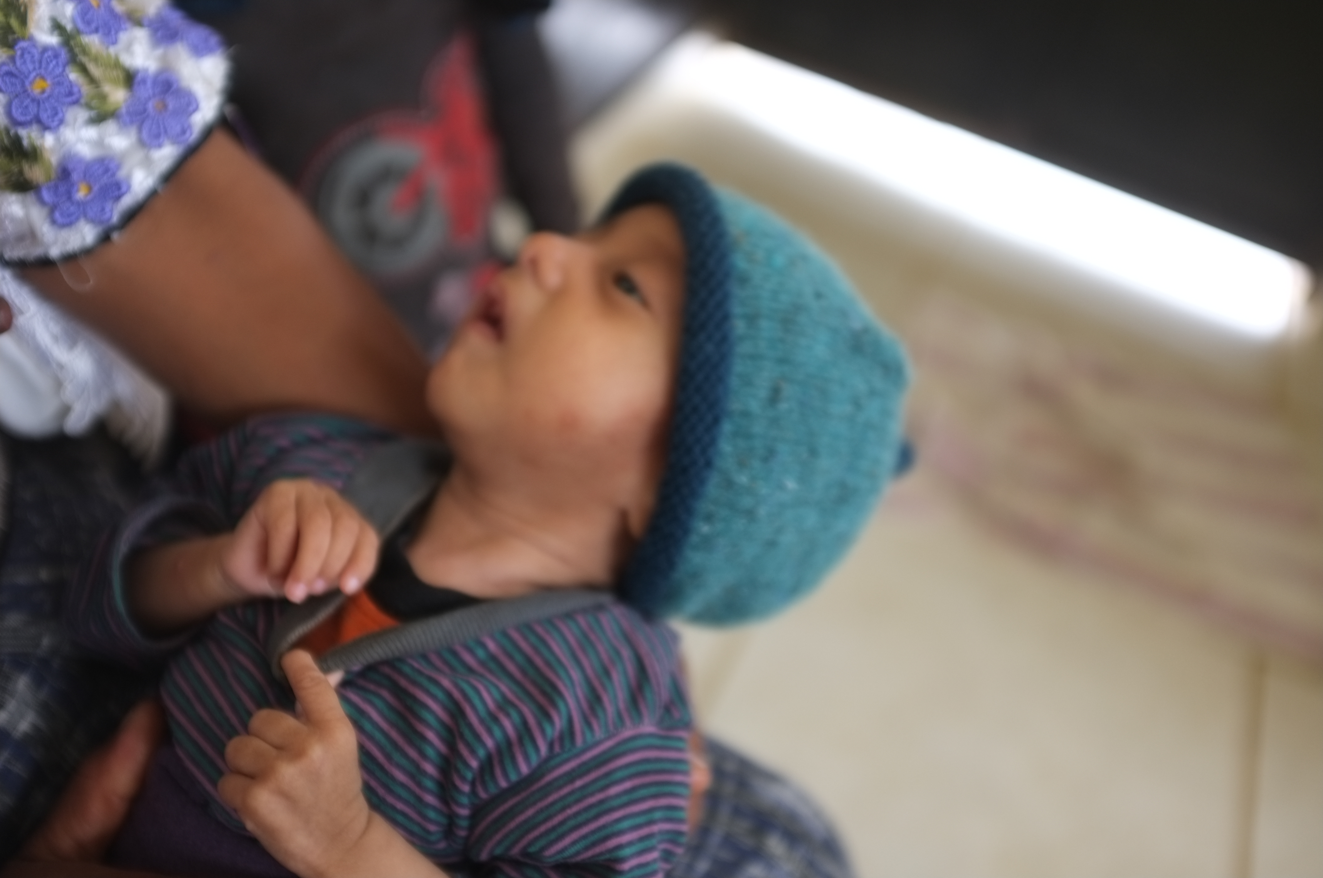 Health&Help